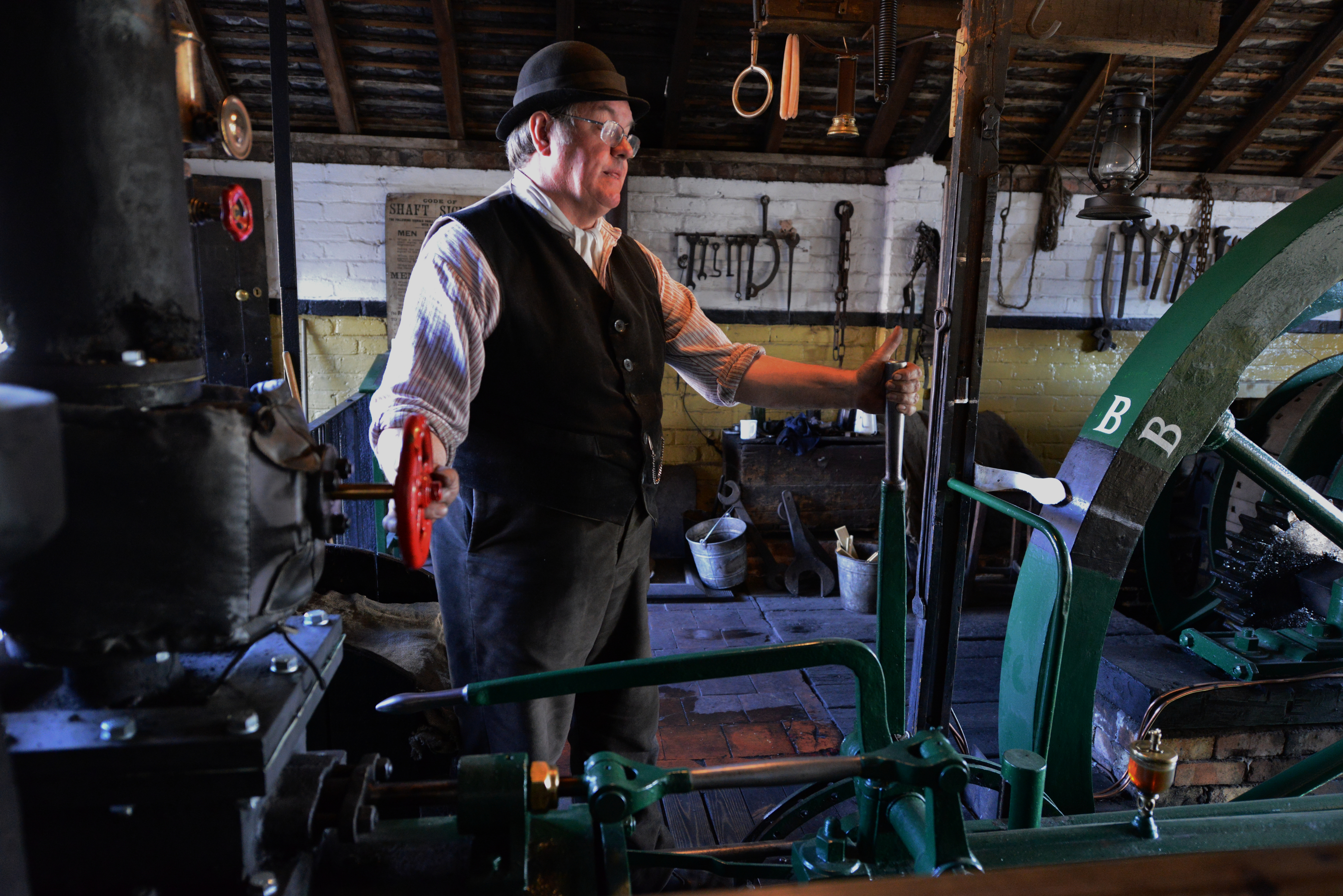 Photo by Michael Garlick